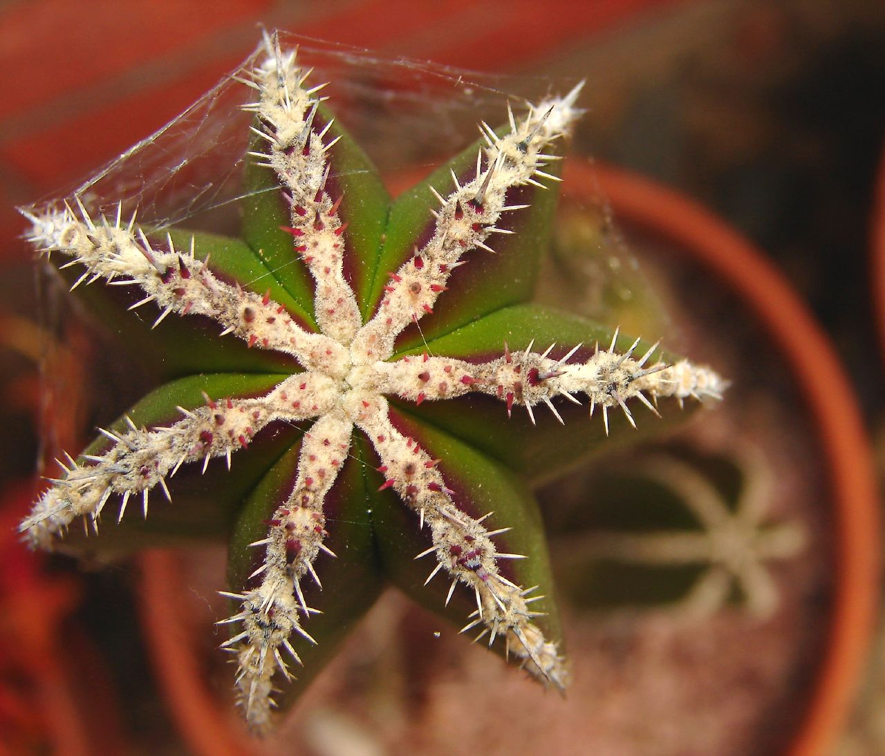 A picture of one of my many cacti